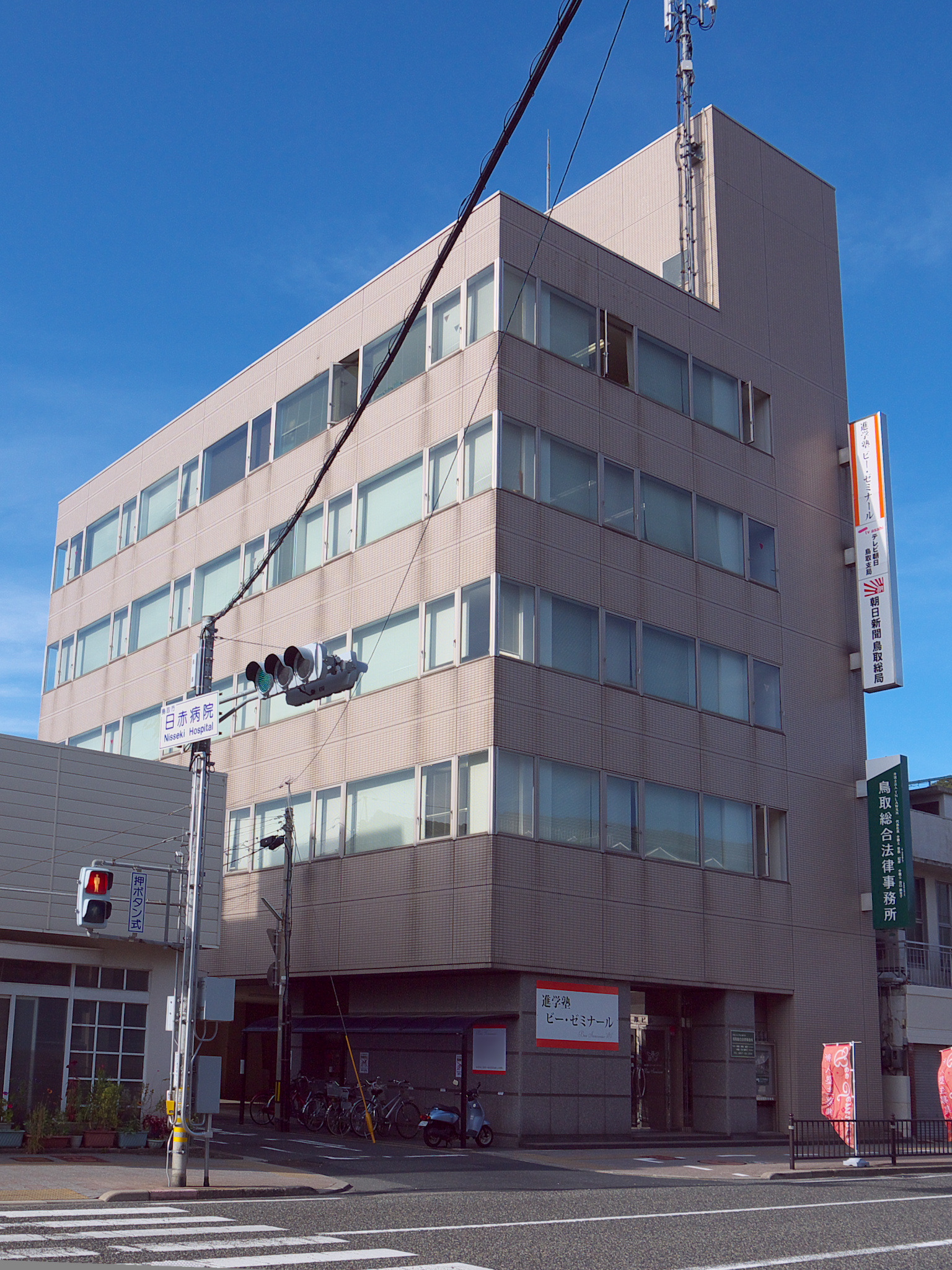 Toho Building, Tottori, Japan. Asahi Shimbun Company Tottori General Office, TV Asahi Corporation Tottori Branch, etc.